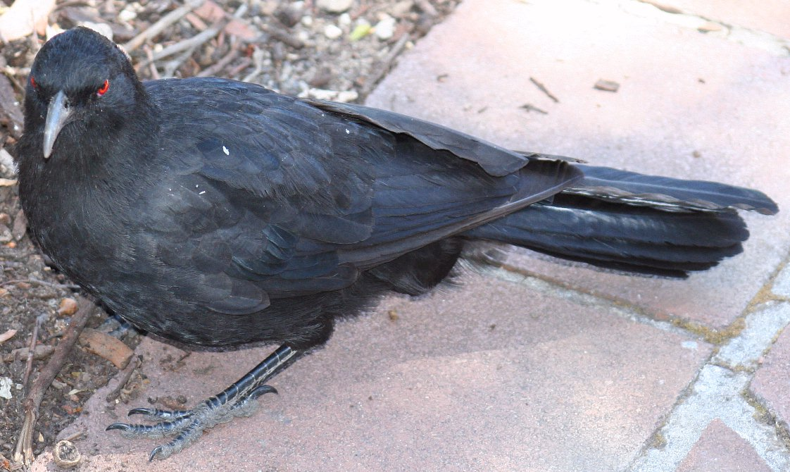 White-winged Chough Corcorax melanorhamphos, Australian National Botanic Gardens, Canberra